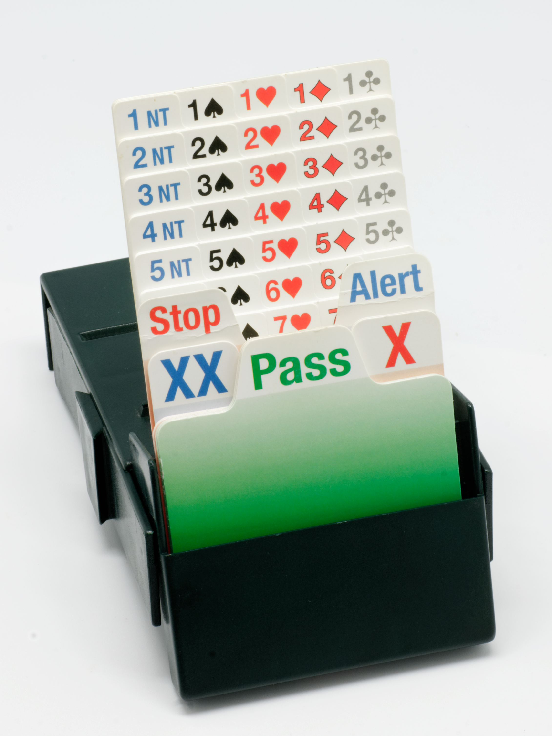 A Bridge Partner bidding box.